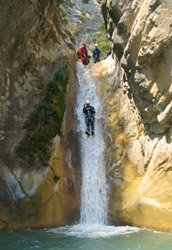 Canyoning in den Alpes Maritimes